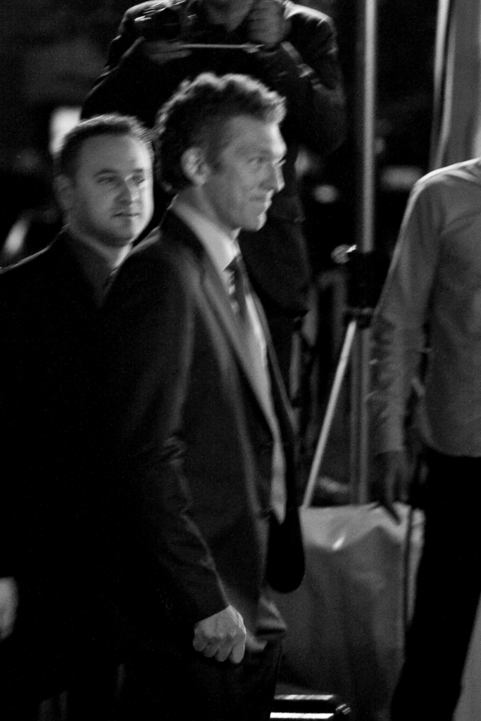 At the premiere of "Black Swan", directed by Darren Aronofsky, during the Toronto International Film Festival, 2010.